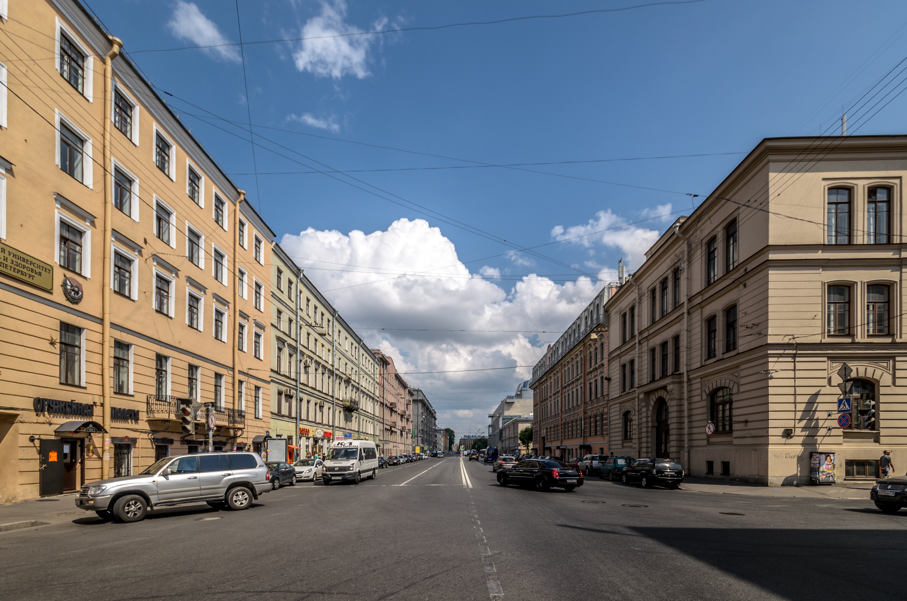 Dekabristov street in Saint Petersburg